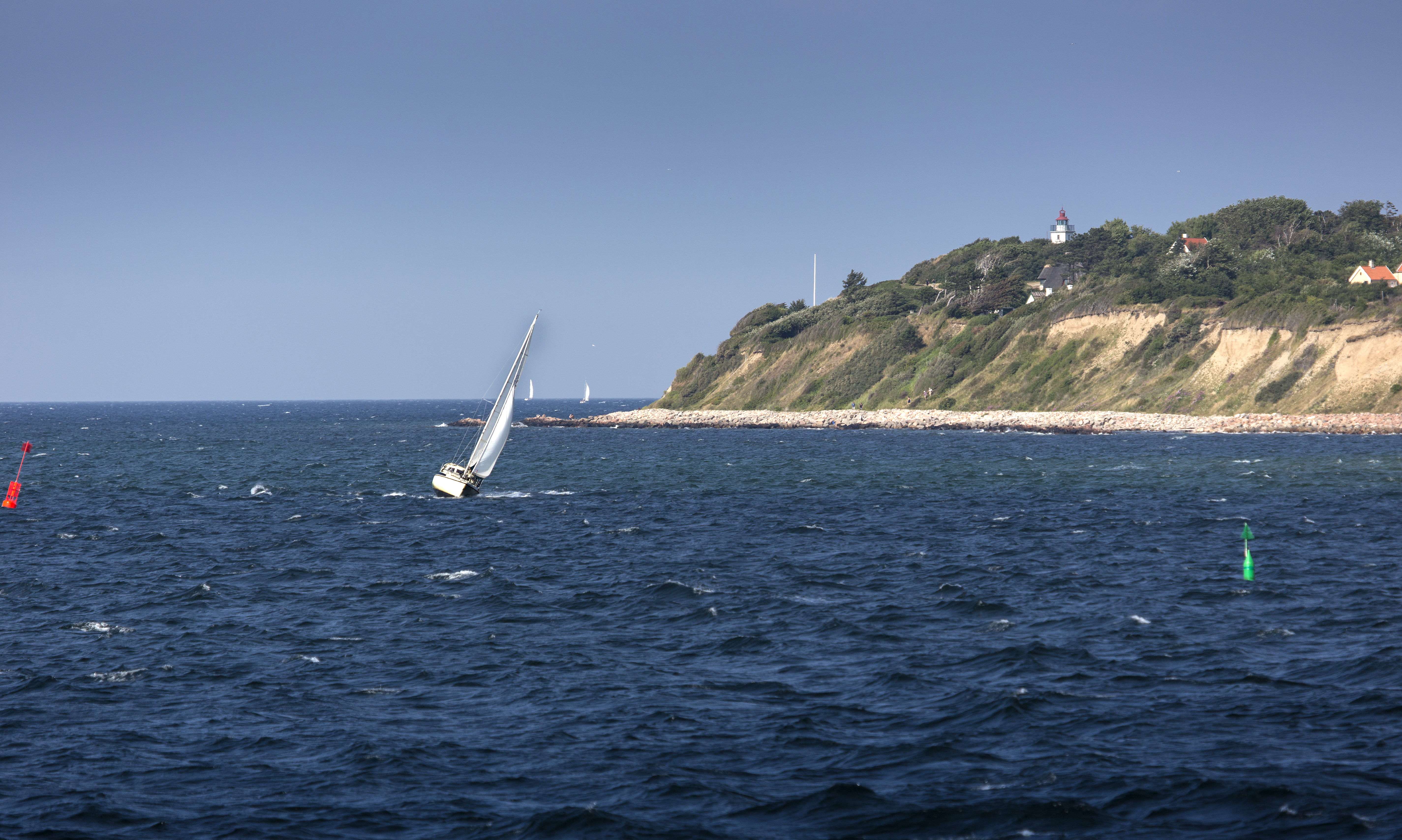 The Spodsbjerg Cliff on the coast just North of Hundested, Denmark